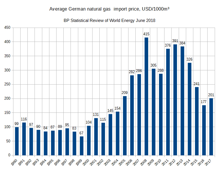 Average German natural gas import price 1990-2017, USD/1000m³ BP Statistical Review of World Energy June 2018